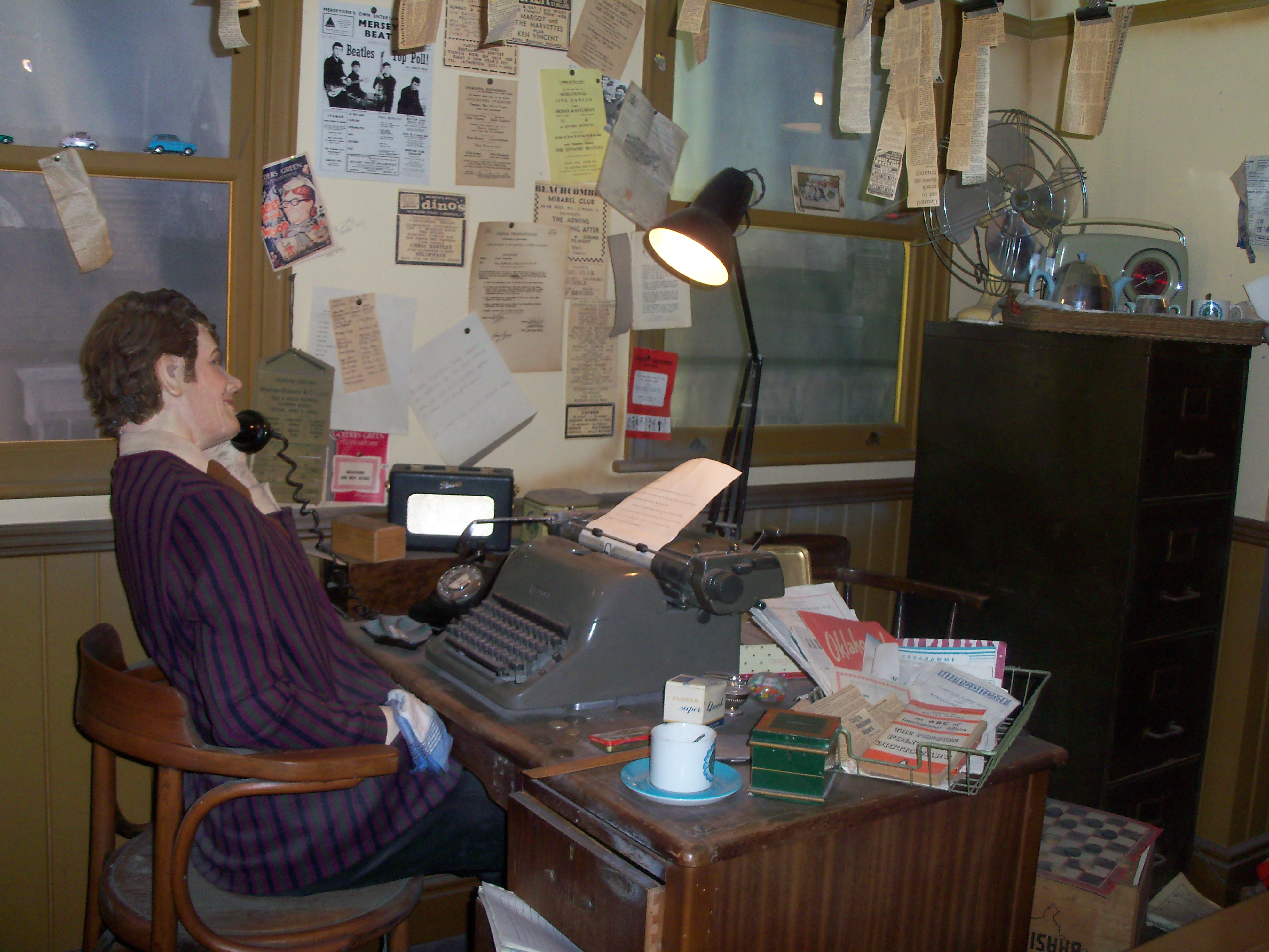 The recreated office of the Mersey Beat newspaper.